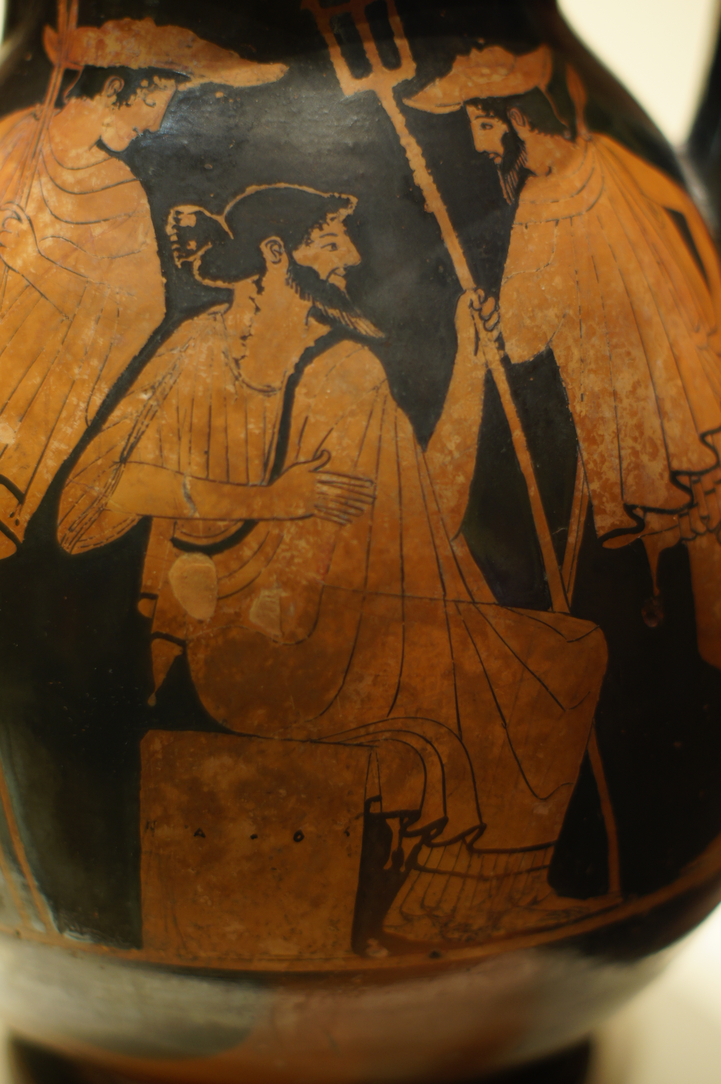 Storage Jar with Poseiden and Theseus made 470BC in Athens